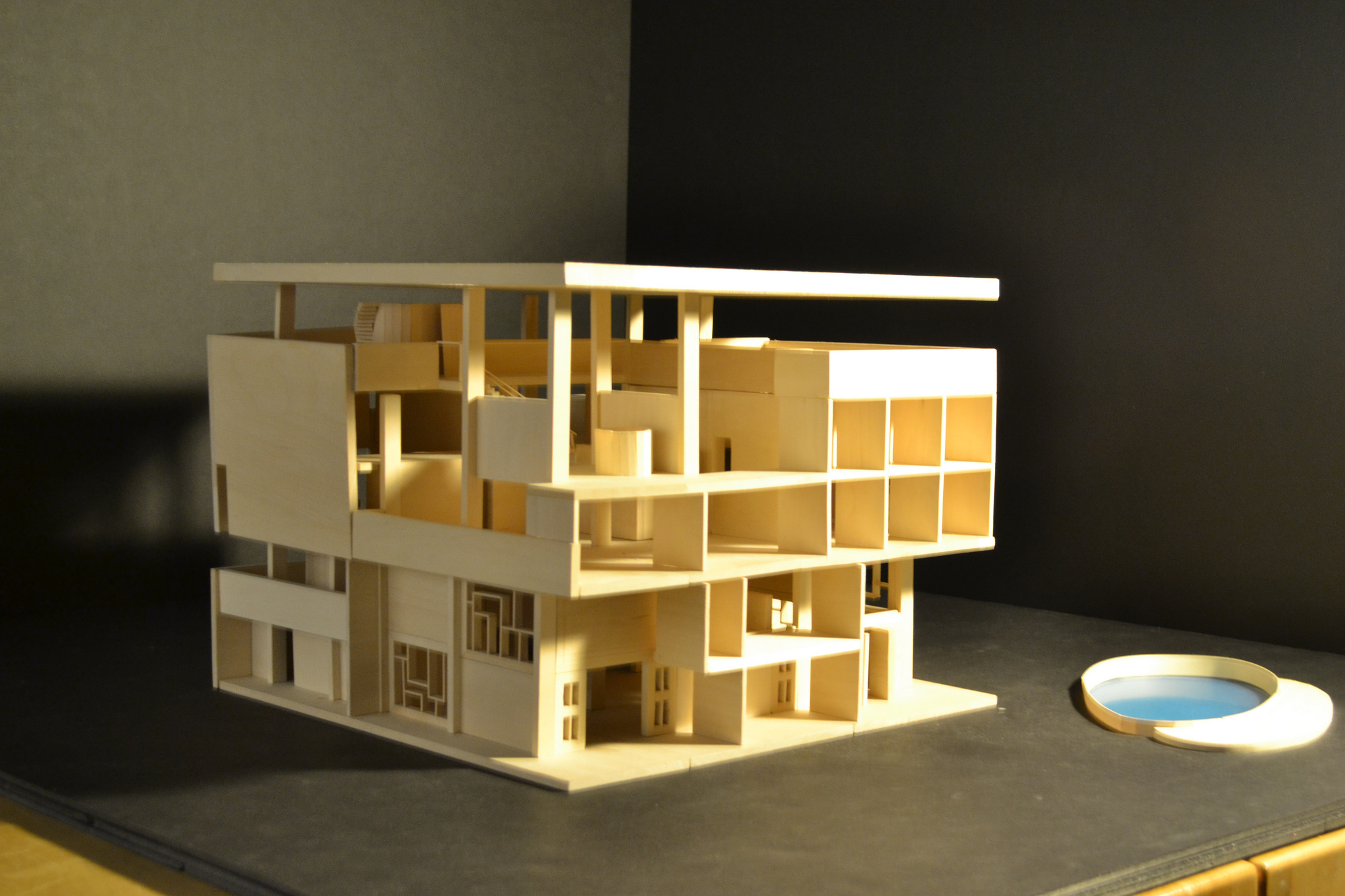 Le Corbusier - Villa Shodhan Main House at Ahmedabad, India